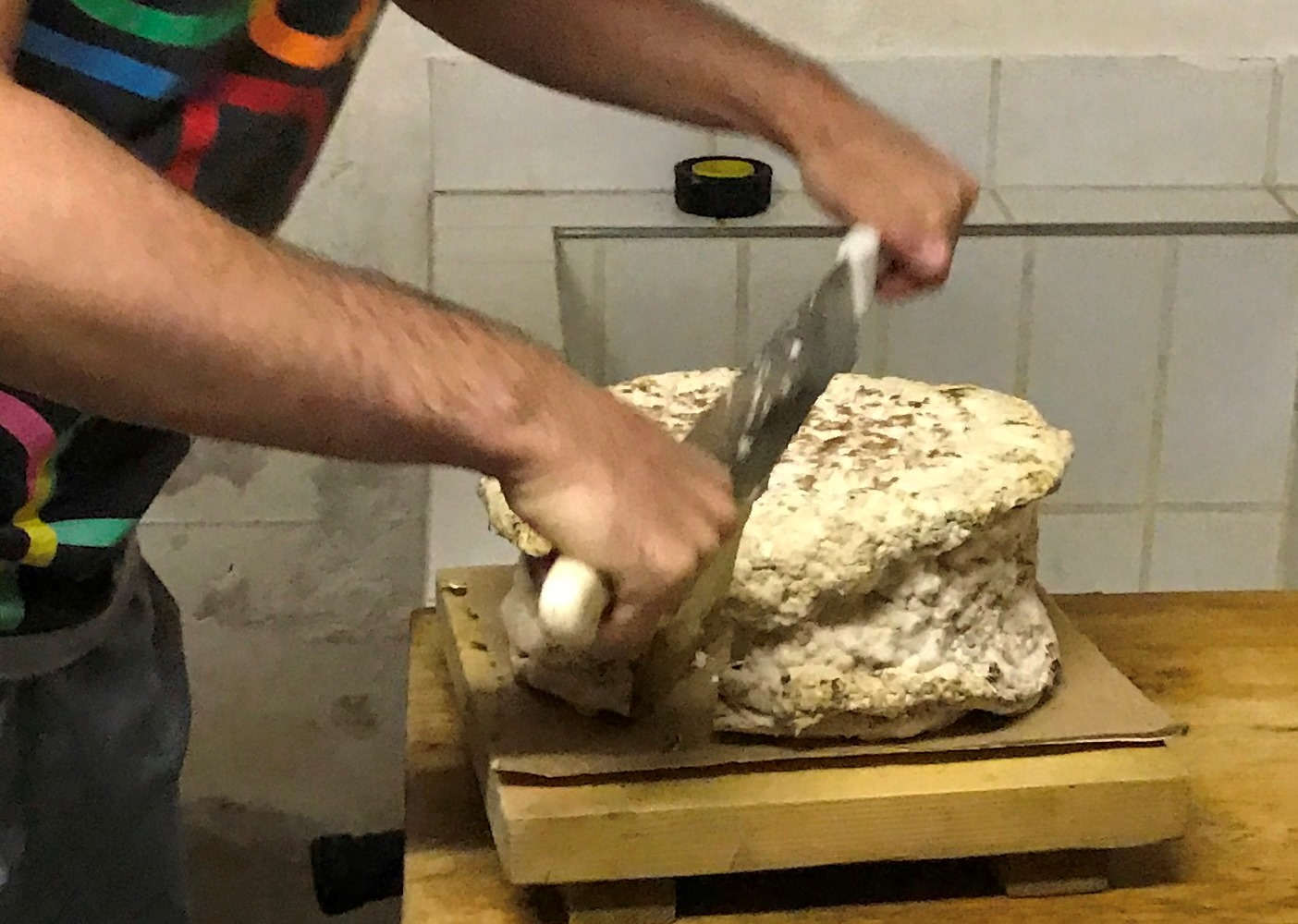 Tyrolean grey cheese Loaf - Graukäse